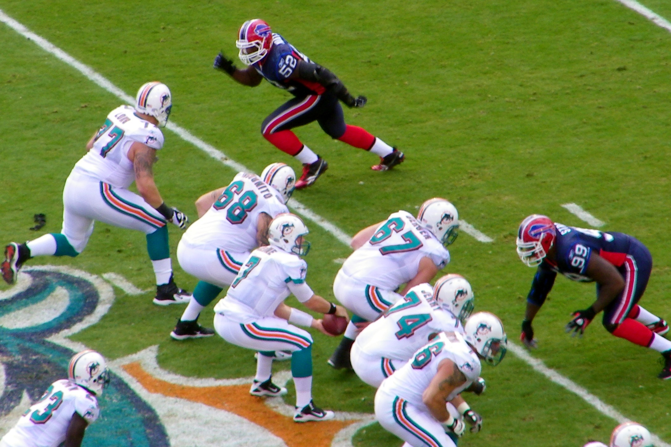 Bills defense vs Dolphins offense, 2010